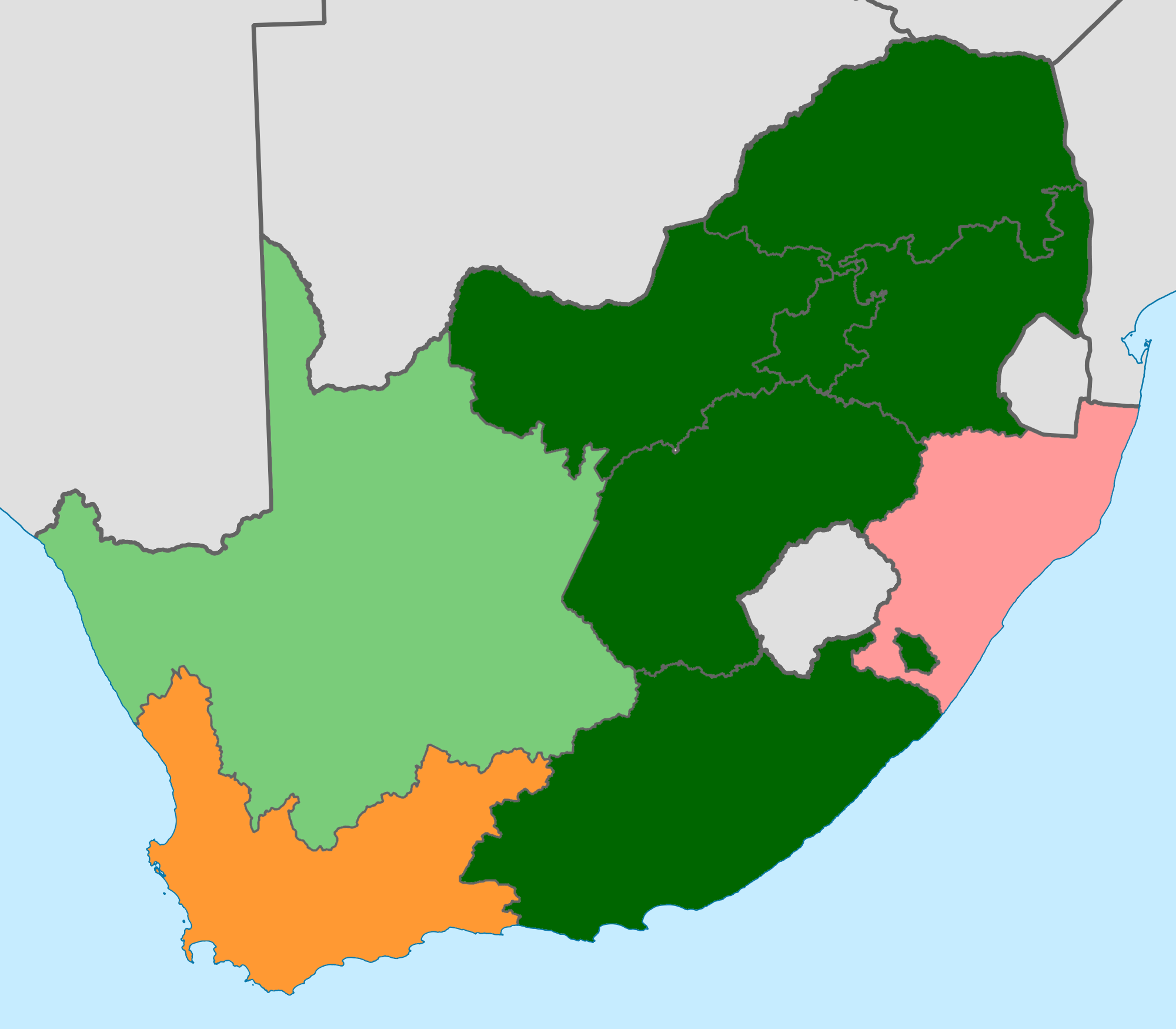 Map showing, for each province in South Africa, the party taking the largest number of votes in the 1994 South African general election. A lighter shade indicates a non-majority plurality.